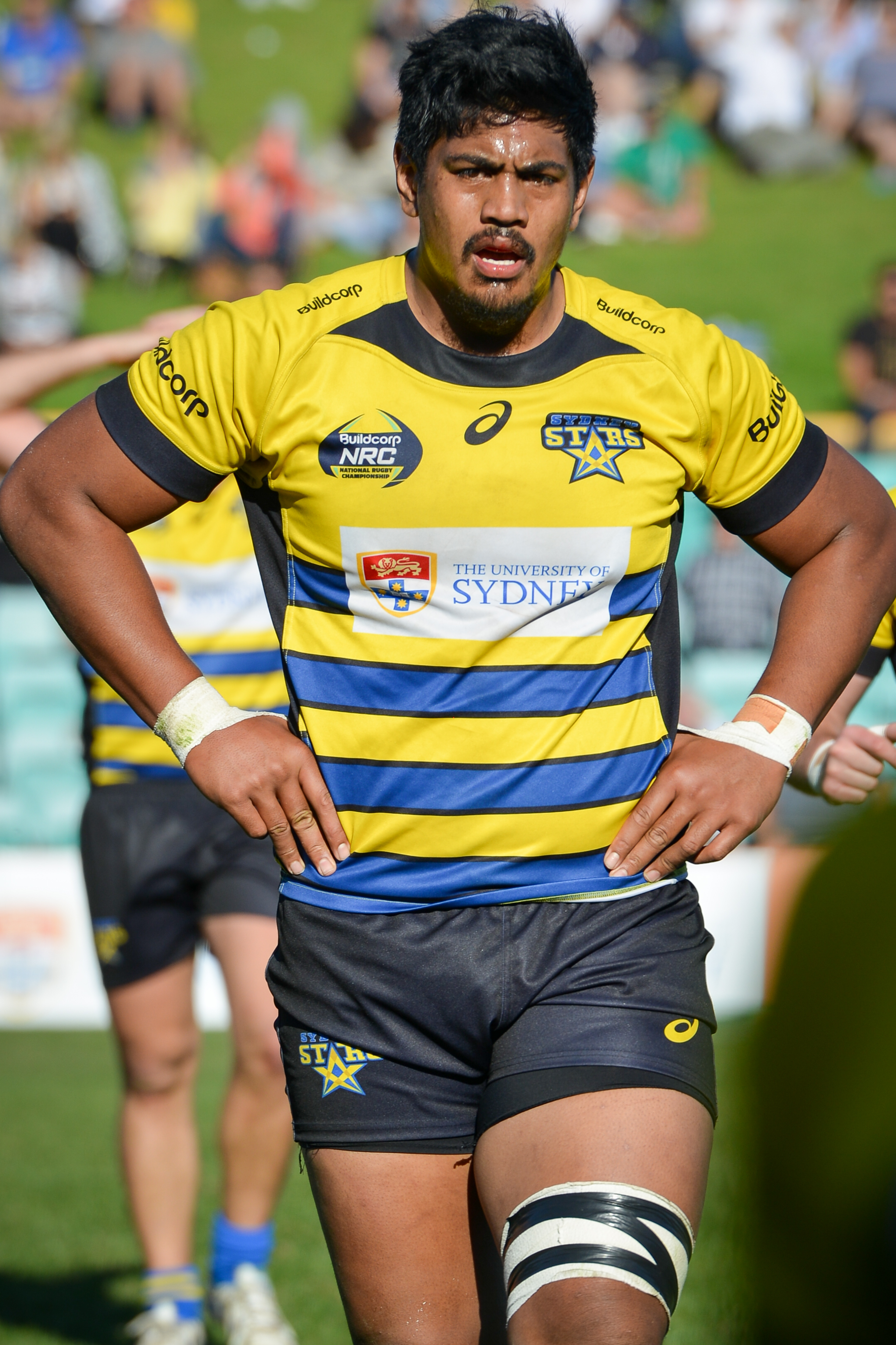 Will Skelton playing for Sydney Stars NRC Round 5